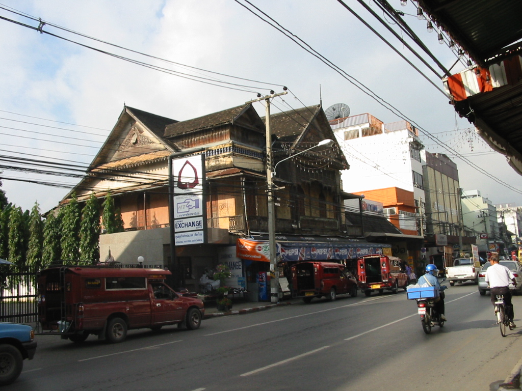 Old House in Chiang Mai,Thailand